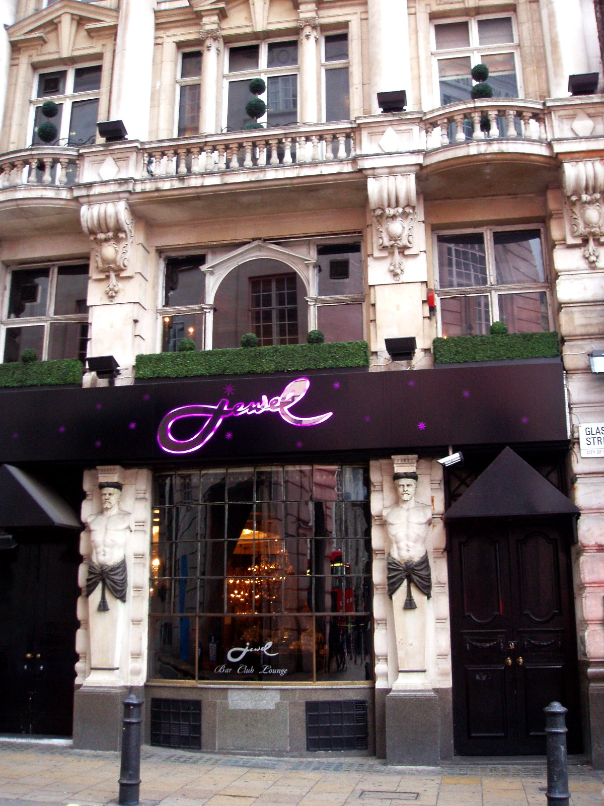 A bar overlooking Piccadilly Circus attached to Bar Blanca. Address: 4-6 Glasshouse Street. Owner: Novus Leisure [Jewel] (website). Links: Beer in the Evening